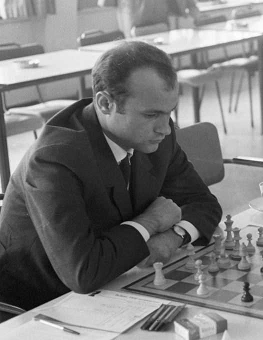 Dragoljub Velimirović, Interzonal tournament 1966 Fédération Internationale des Échecs (FIDE), The Hague